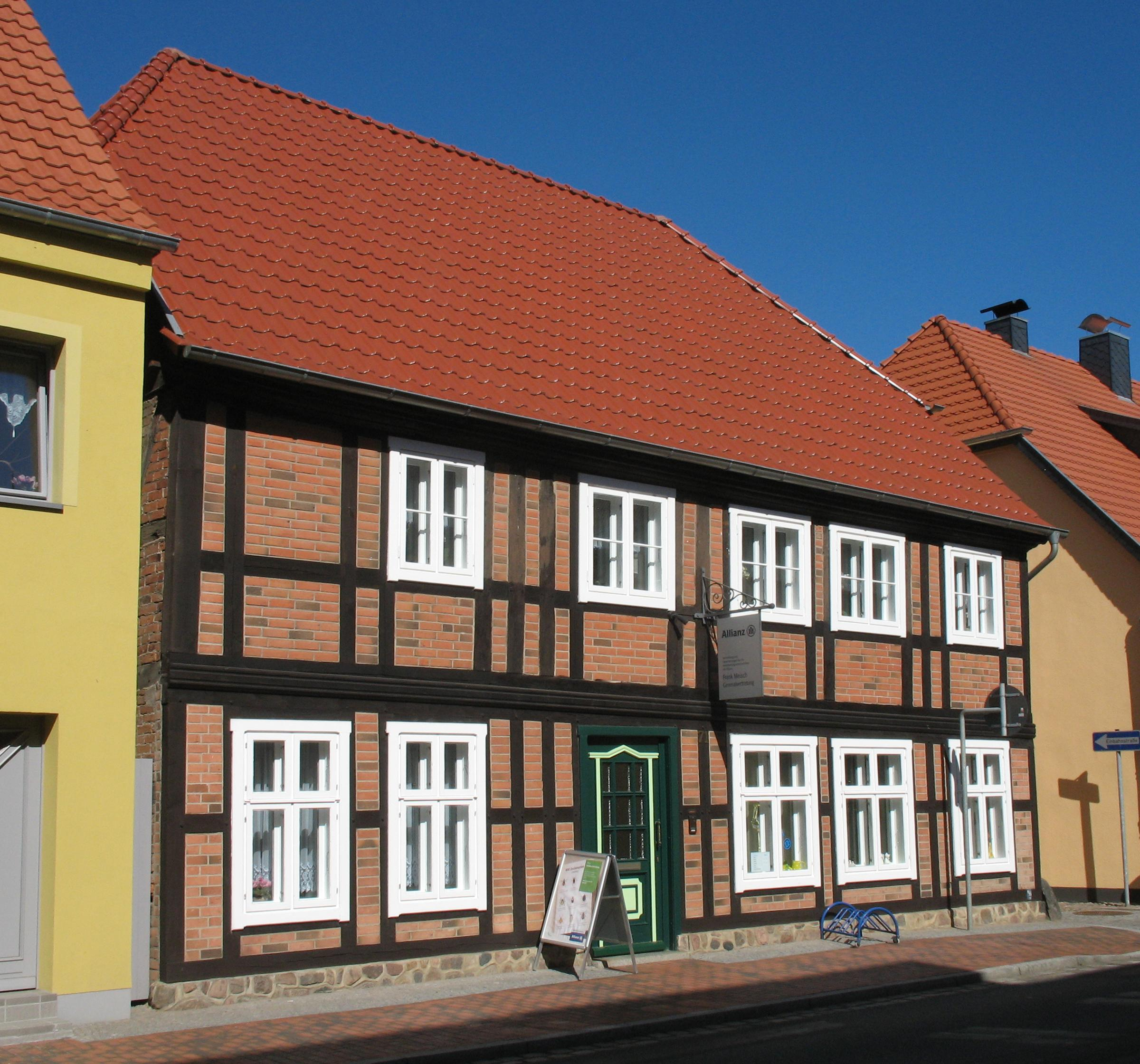 Building in Goldberg in Mecklenburg-Western Pomerania, Germany